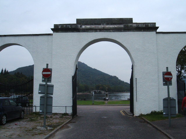 Gateway over A819, Inveraray